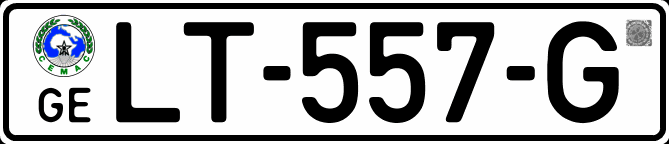 License plate from Equatorial Guinea